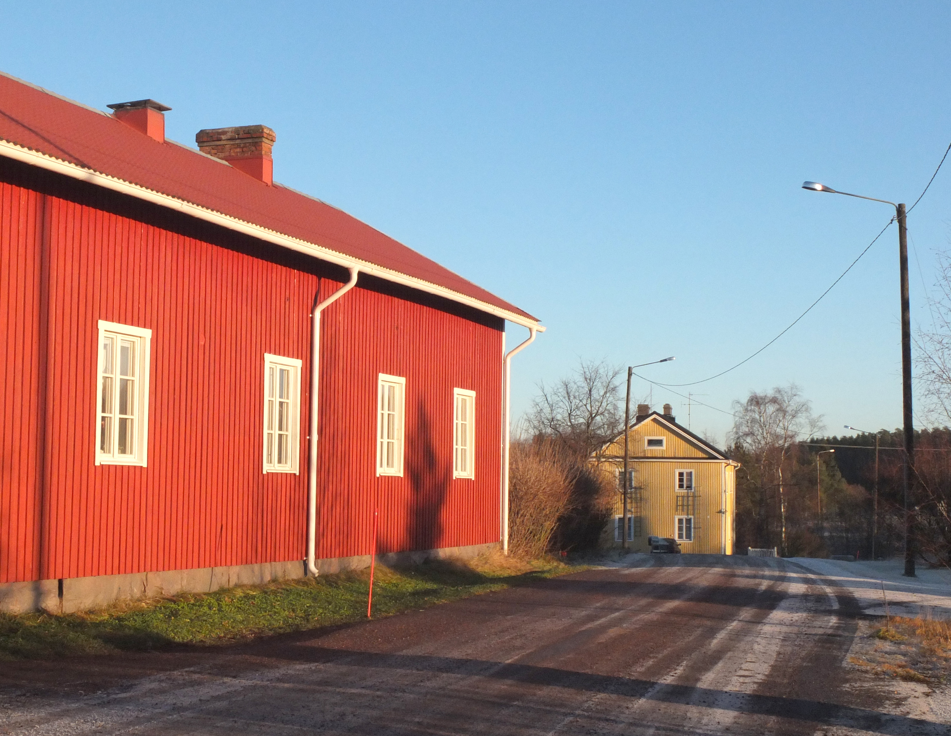 Old wooden residential buildings on Mannintie street, Asemanseutu, Lieto, Finland (village near old Lieto railway station). December 2013.